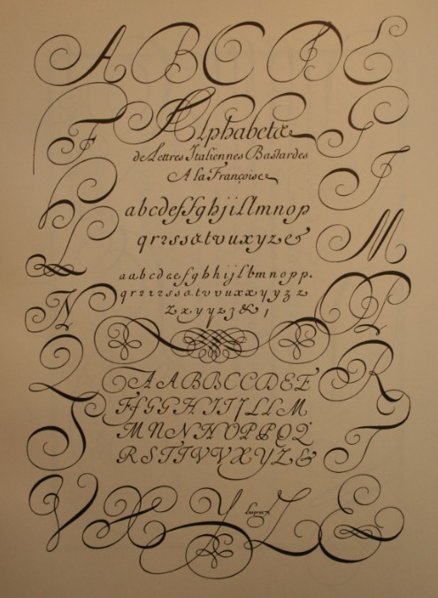 Calligraphy example